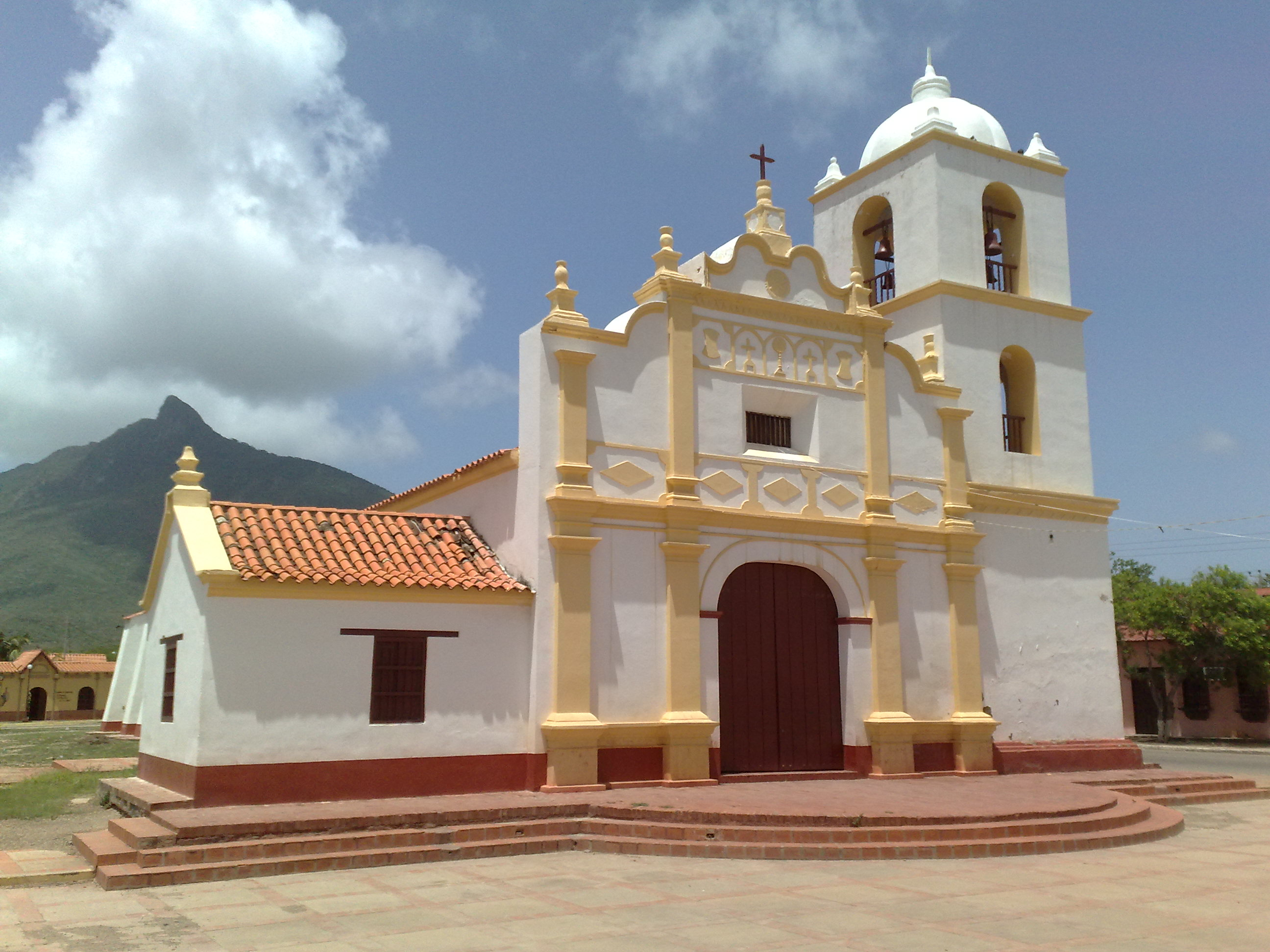 Saint Nicholas church in Moruy.